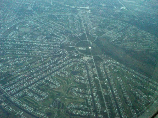 A photo of Rotonda, FL.